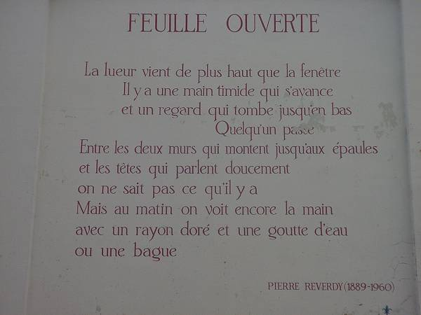 Wallpoem in the city of Leiden in the Netherlands.